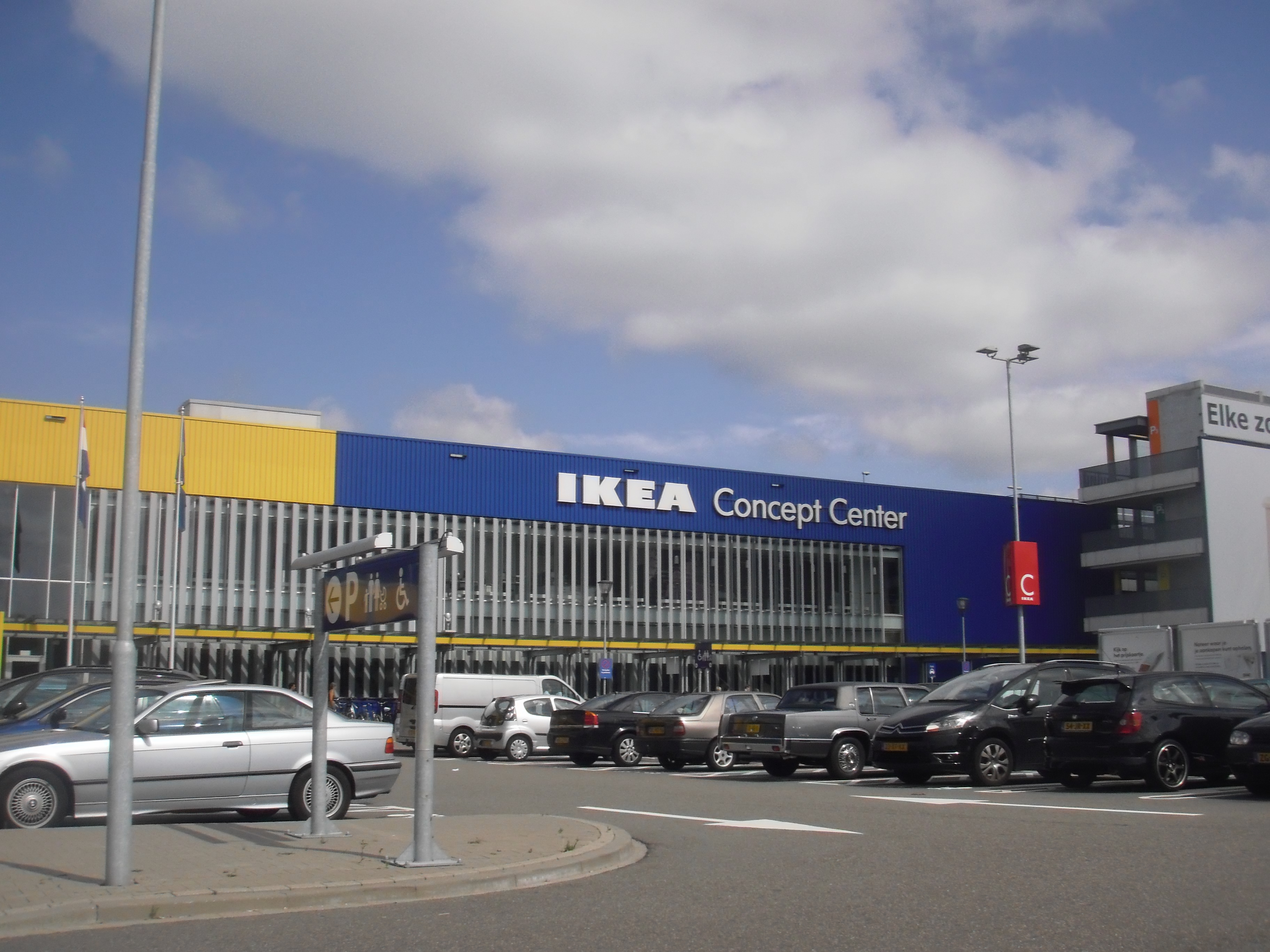 IKEA Concept Center - Head office of Inter IKEA Systems B.V. - Olof Palmestraat 1 2616 LN Delft The Netherlands